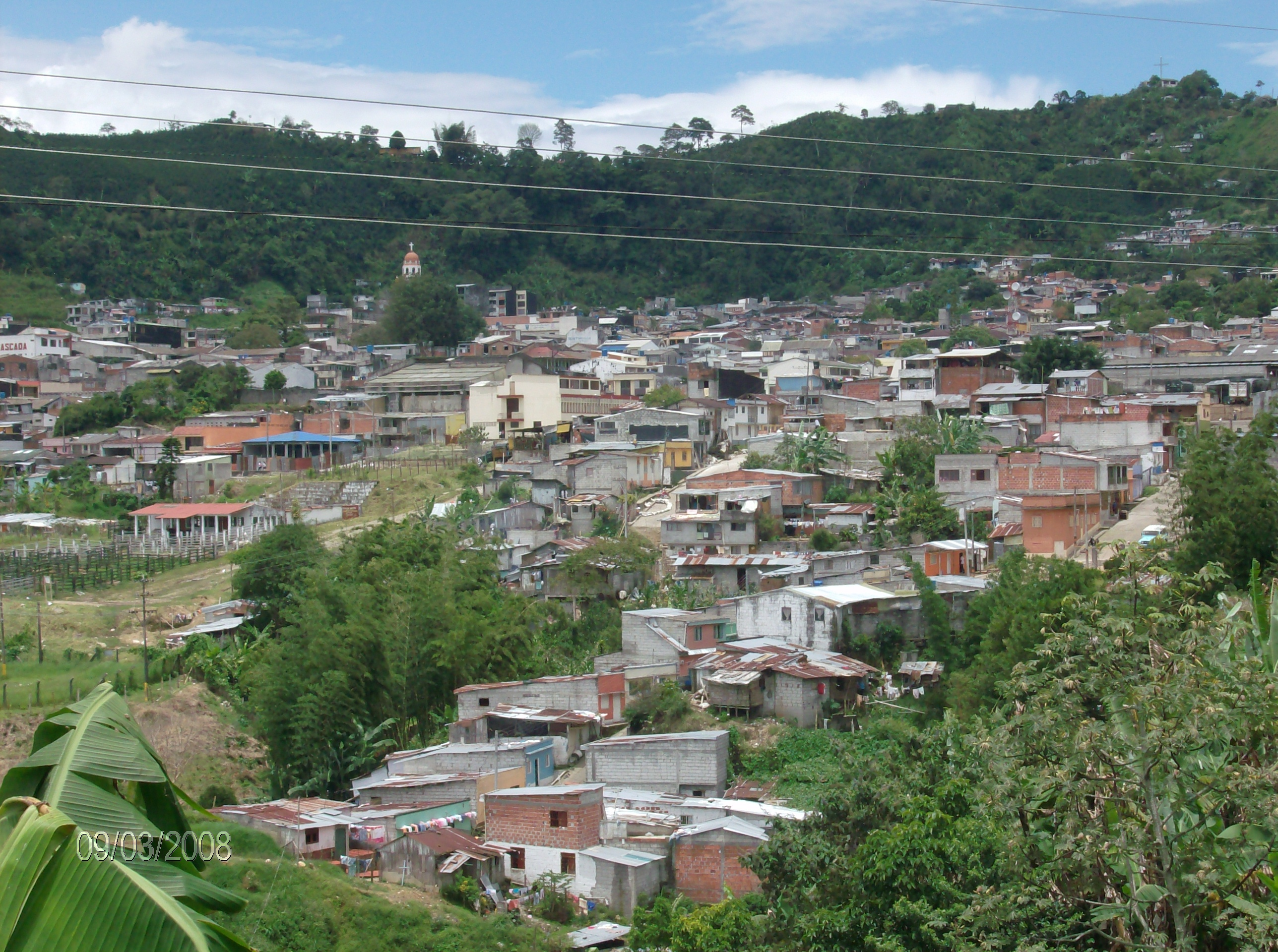 Colombia